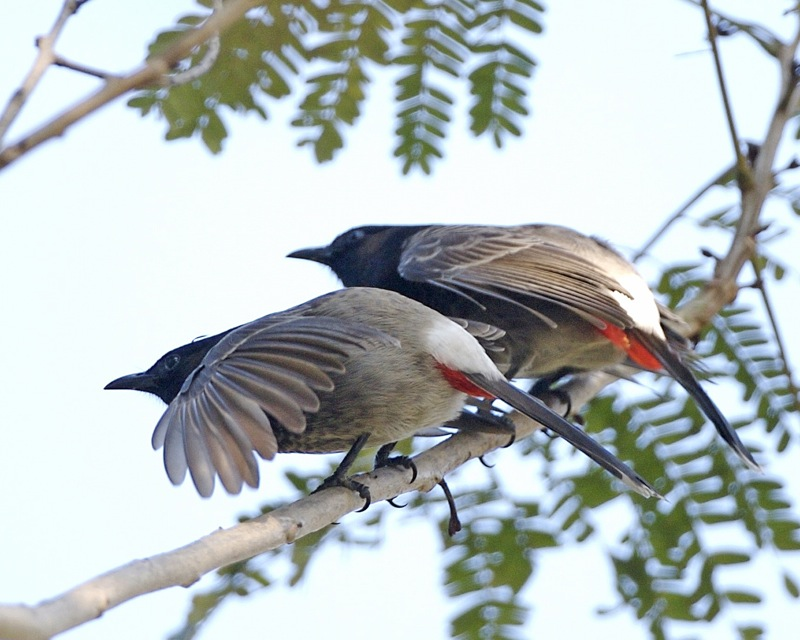 Red-vented Bulbul Pycnonotus cafer ssp Pycnonotus cafer bengalensis 11th. December 2007 Jahangir University campus, Dhaka, Bangladesh _Q0S2807